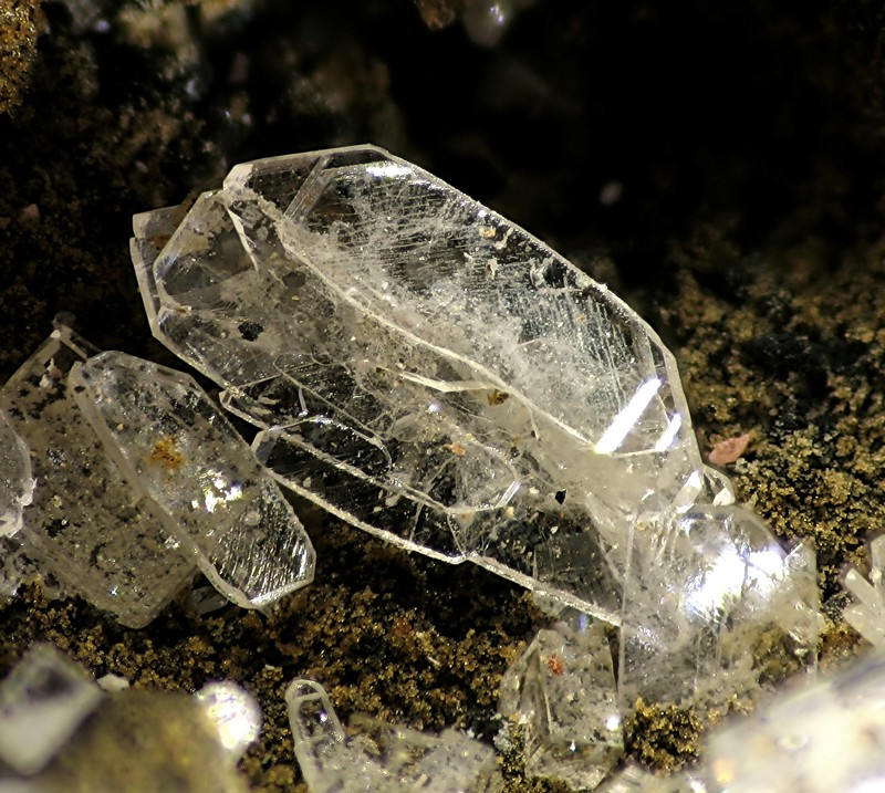 Fiedlerite Locality: Vrissaki Point slag locality, Vrissaki area, Lavrion District slag localities, Lavrion (Laurion; Laurium) District, Attikí (Attica; Attika) Prefecture, Greece Picture width 3 mm. Collection and photograph Christian Rewitzer